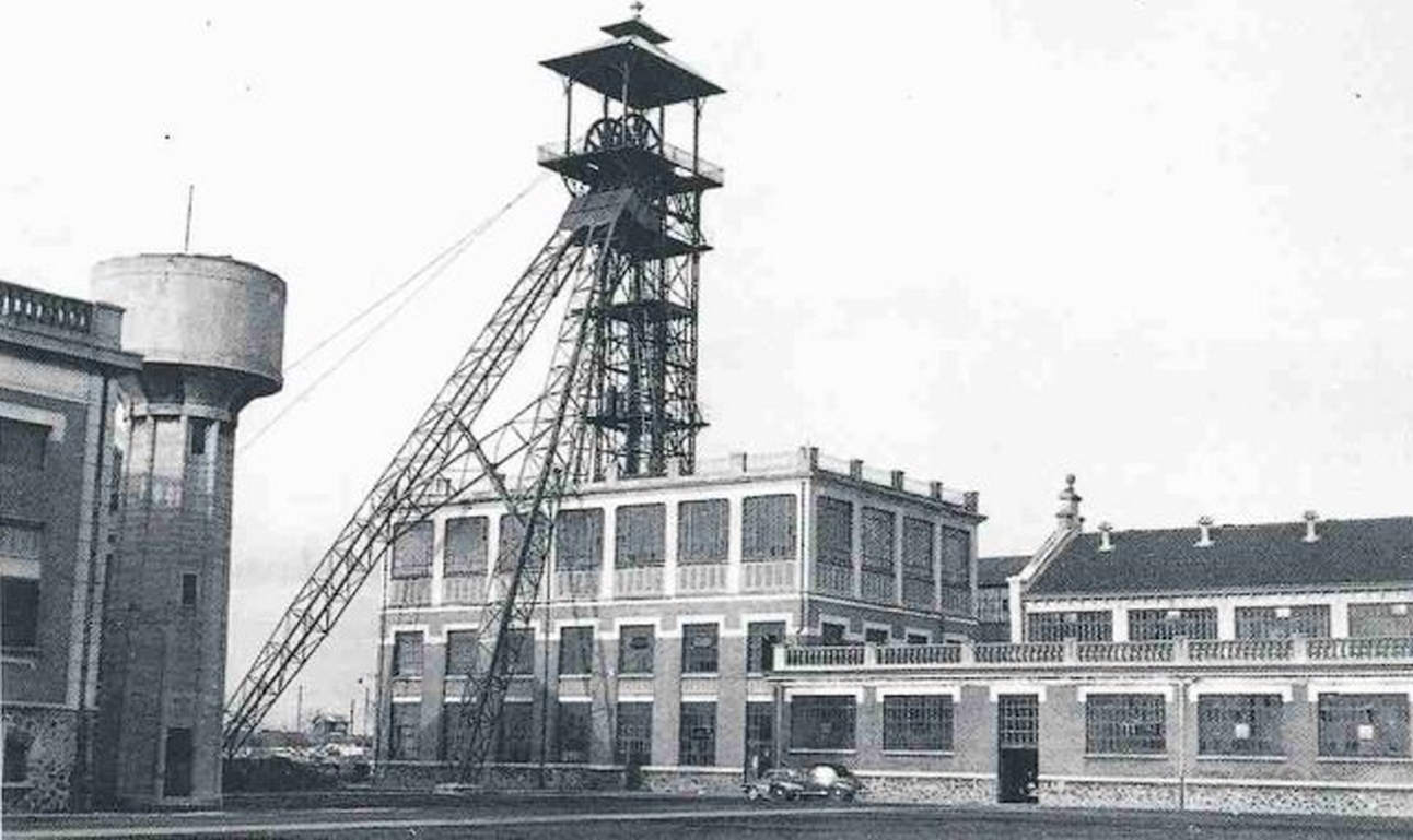 Coalpit n° 14, Compagnie des mines de Lens, Lens, Pas-de-Calais, France.